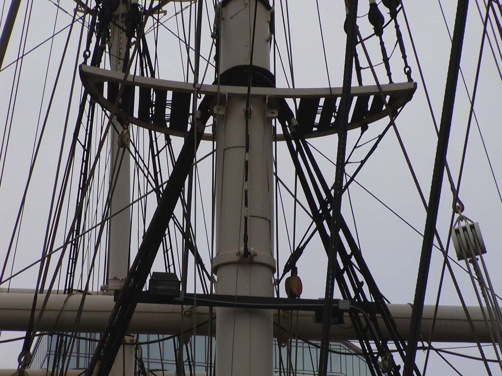 Falls of Clyde mast top seen from aft